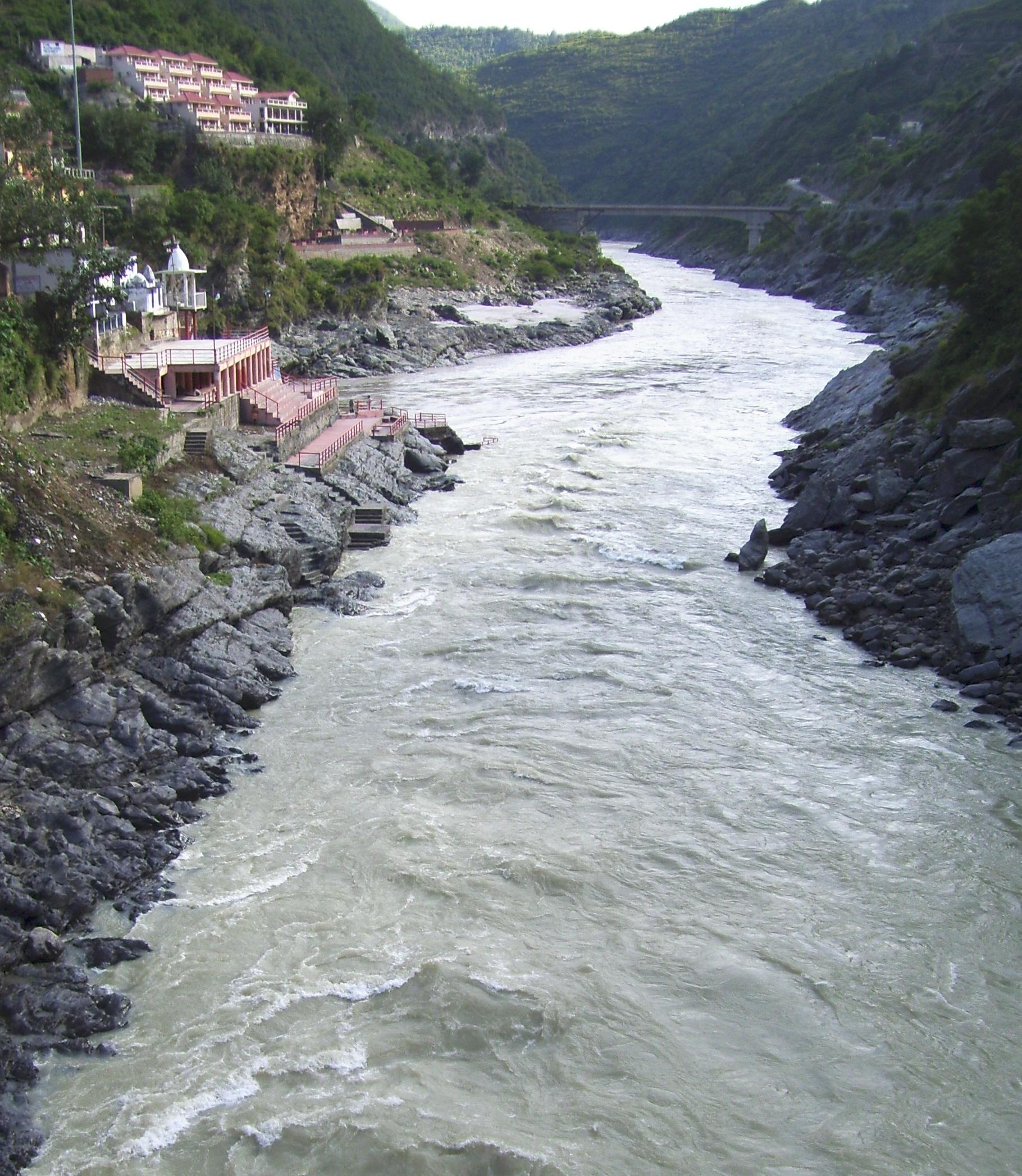 The turbulent Bhagirathi river (foreground) on its way to meet the sediment-laden Alaknanda river and to flow on as the Ganges, at Devprayag, Uttarakhand, India.